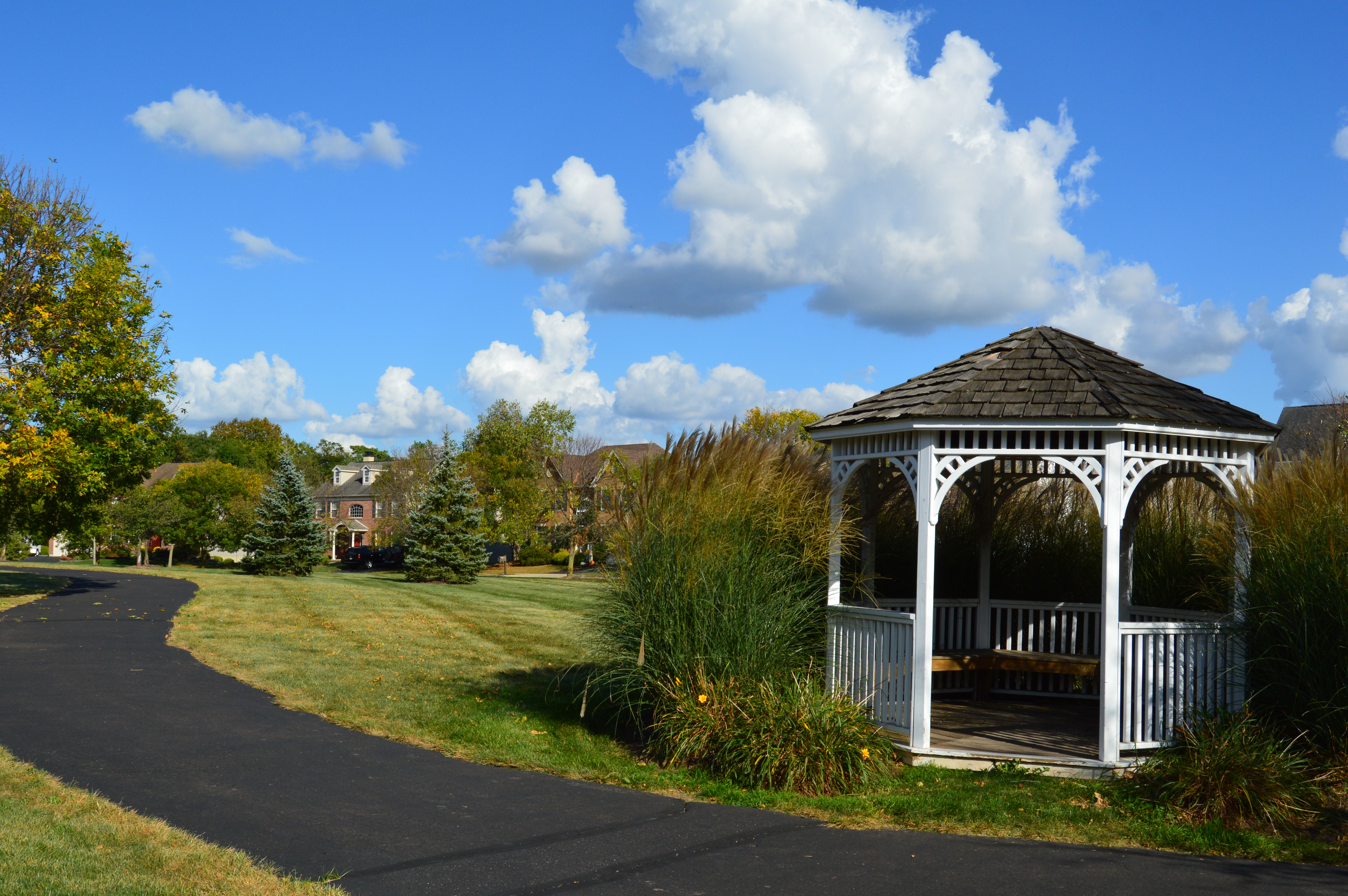 Green at the Cambridge Reserve Development in Franconia.